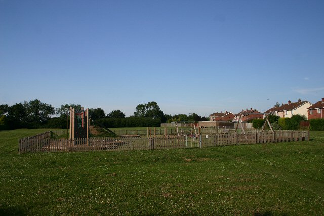 Lawshall playing field. Children's play area in the centre of Lawshall.